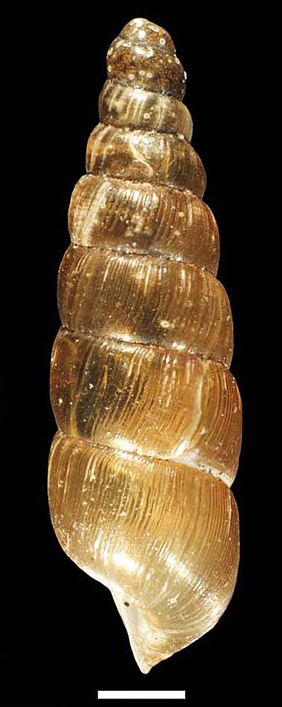 Photo of a lateral view of a shell of Balea perversa. Locality: Norway, Telemark, Vråvannet. Scale bar is 1 mm.